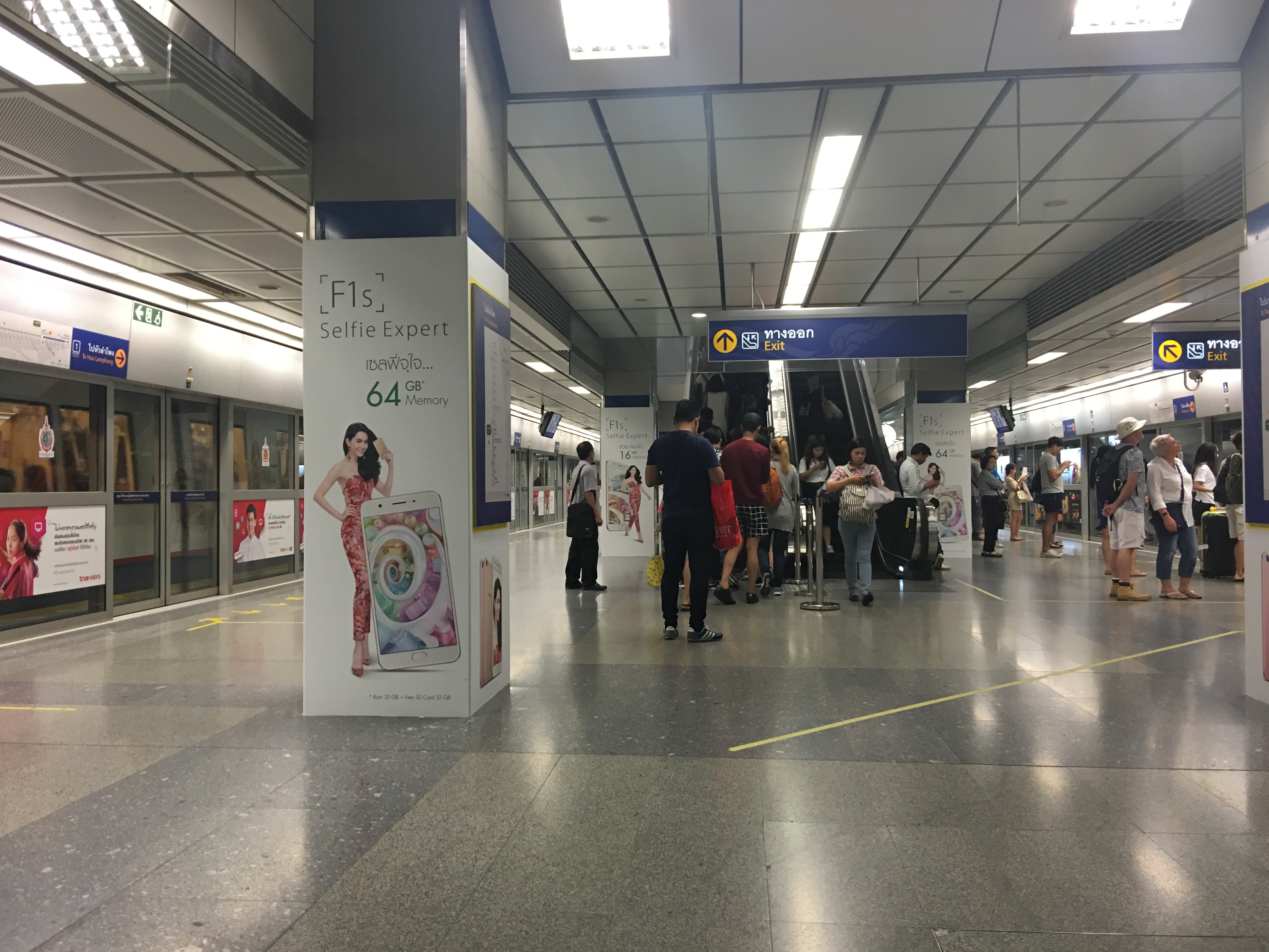 The platform level of Sukhumvit Station